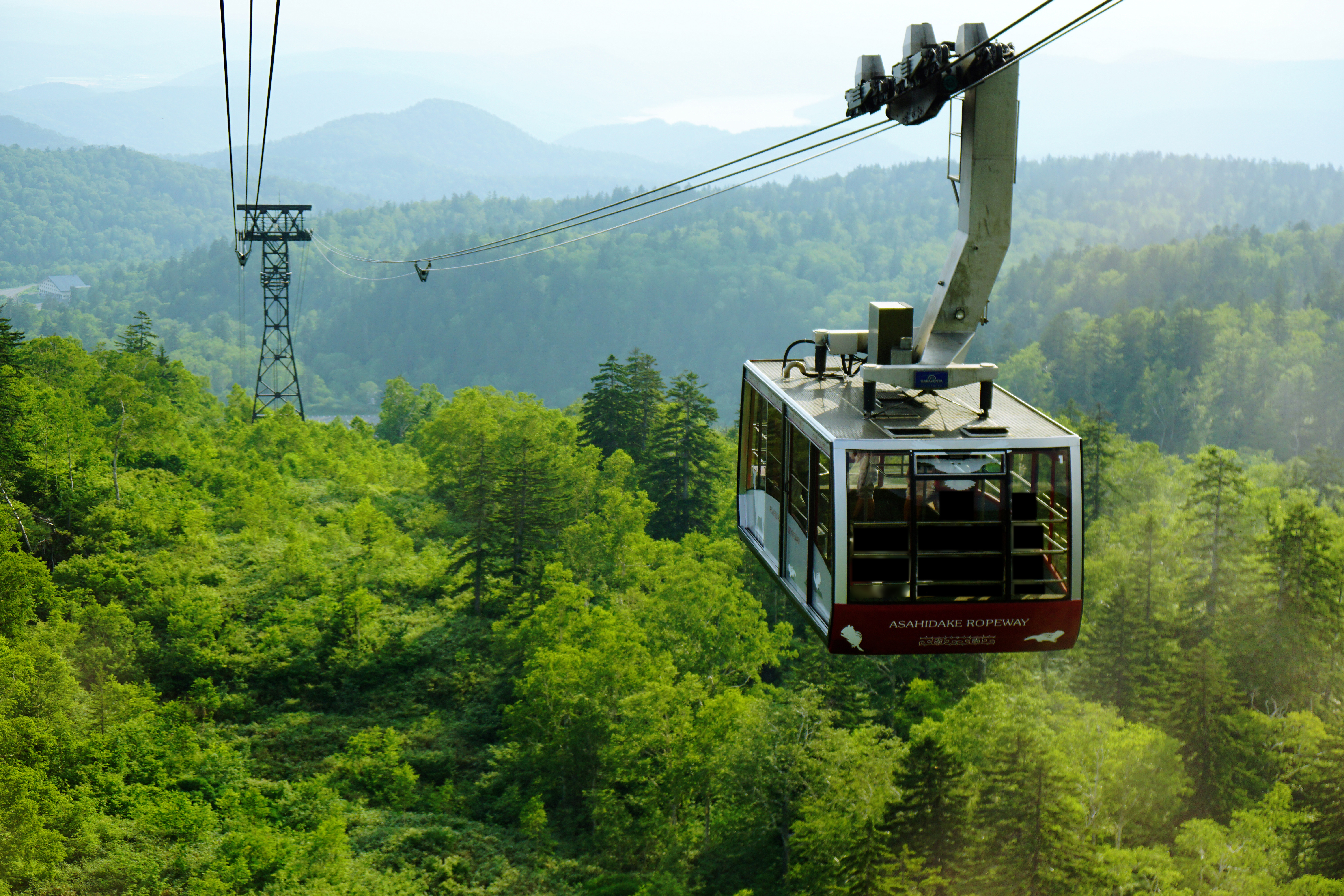 Asahidake_Ropeway at Higashikawa, Hokkaido, Japan.